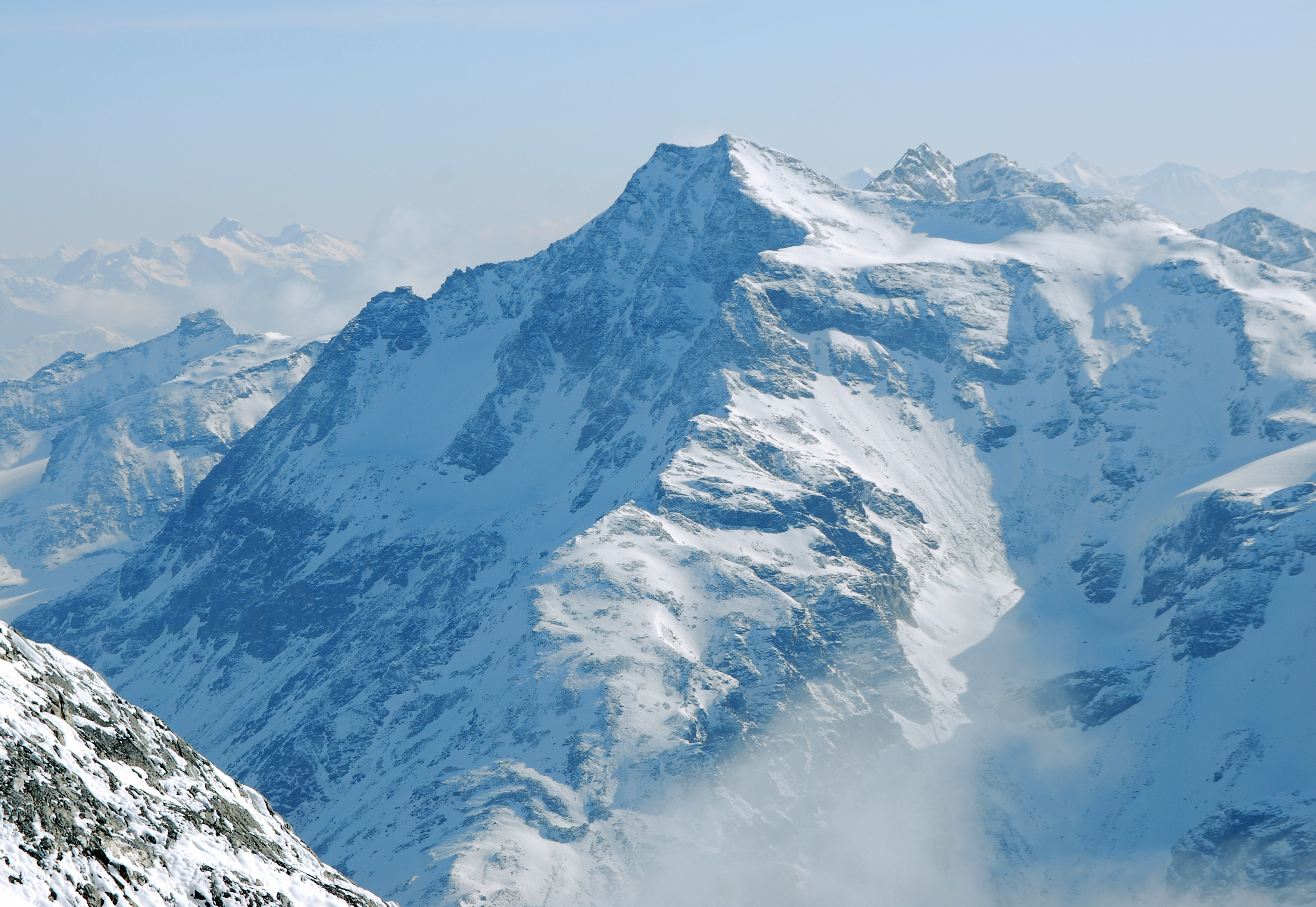 Vertainspitze from sw (Königspitze)